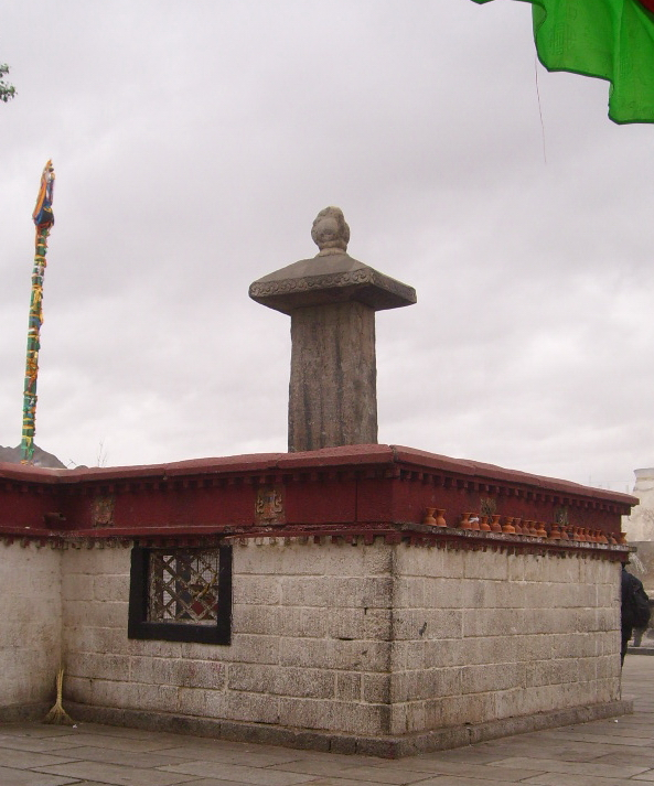 The Sino-Tibetan Treaty Inscription (back side) which was erected in 823, stands outside the Jokhang temple in Lhasa, China. A bilingual account of a peace treaty was inscribed on.